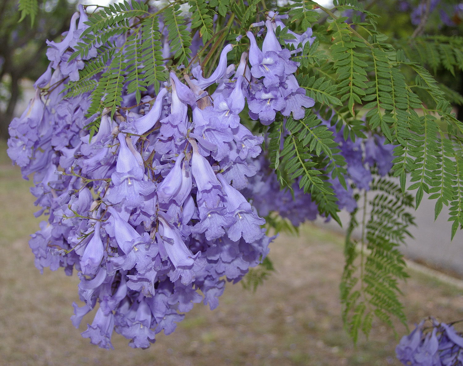 Jacaranda mimosifolia in flower in Turvey Park, New South Wales, Australia.